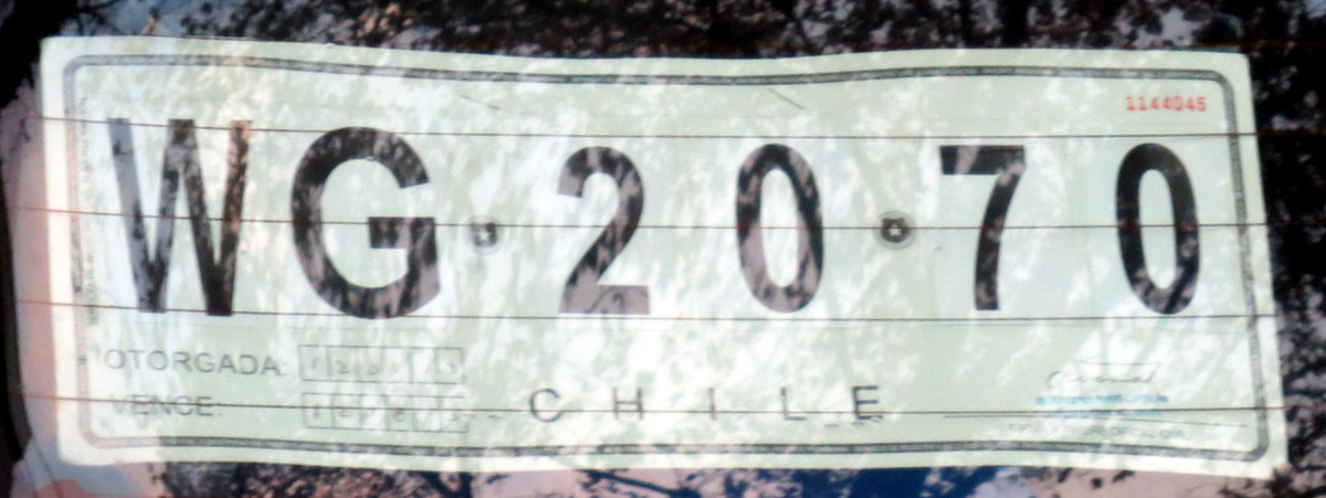 Chilean registration plate in format 2: particular (paper)